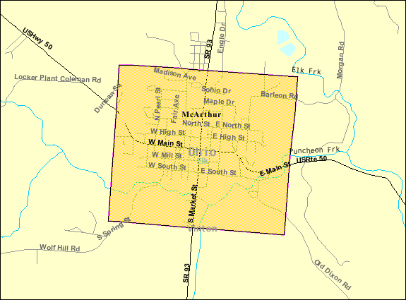 Map of McArthur, a village in Vinton County, Ohio, United States, with its boundaries at the time of the 2000 census.